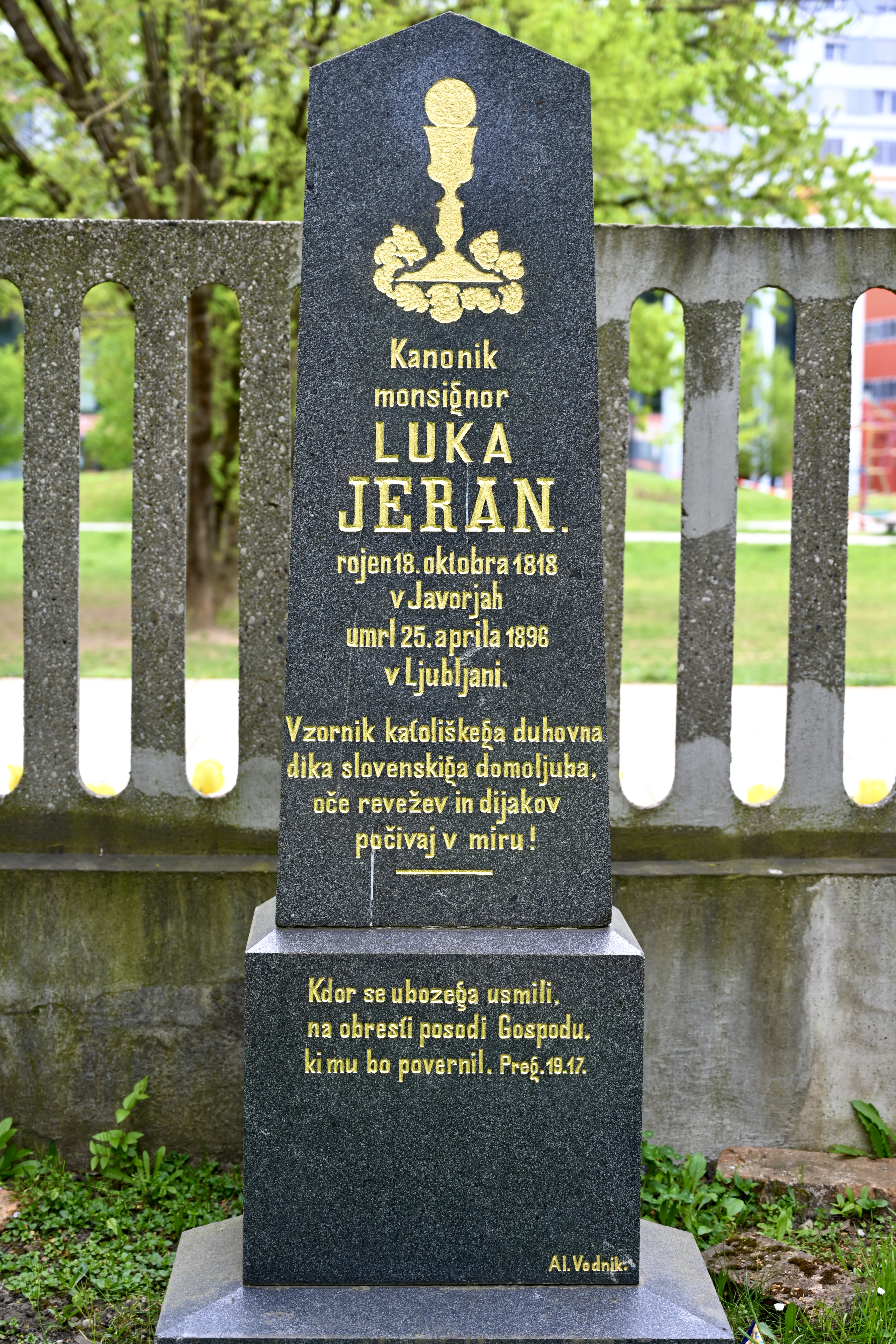 Tombstone of Luka Jeran, a Slovenian priest and author at Navje in Ljubljana